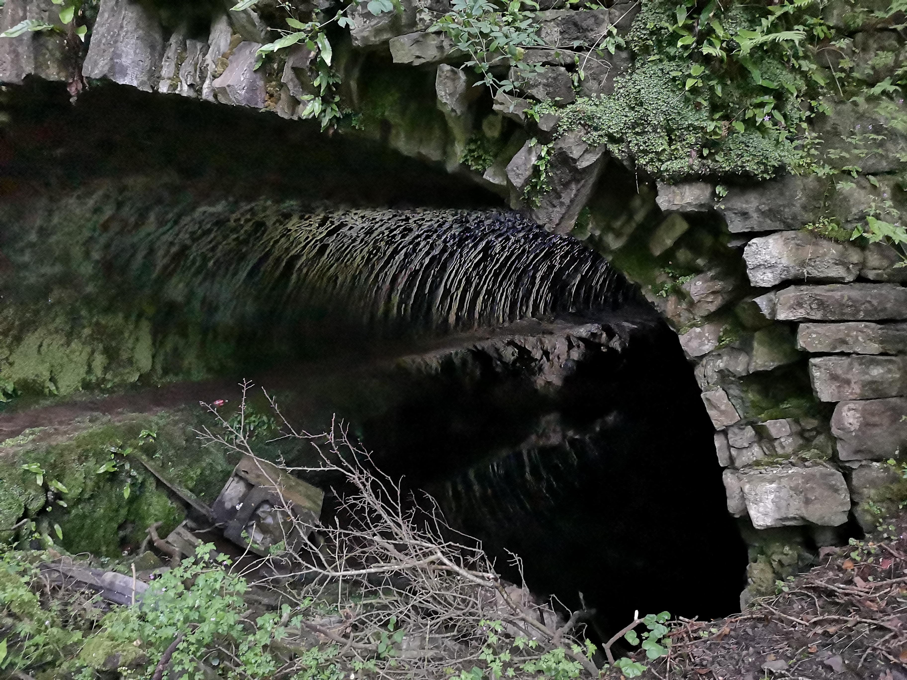 The Barnsay Tunnel on the Little Cut branch of the Leeds and Liverpool Canal at Barnoldswick, Lancashire. The Little Cut served the Rain Hall Rock limestone quarry, which began operation around the turn of the 19th century and closed end of the First World War. The tunnel was one of two that allowed barges to enter the quarry.